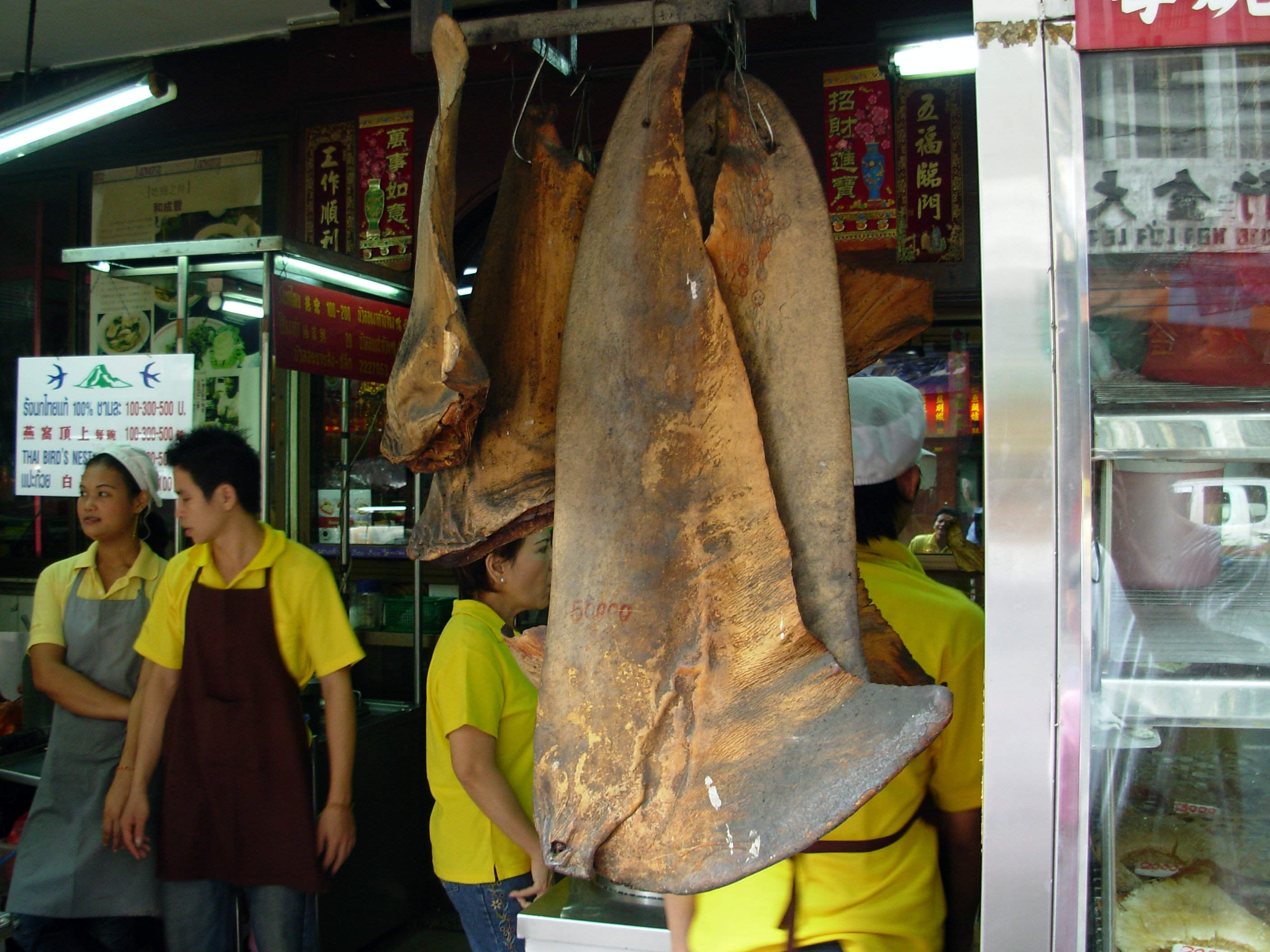 Chinatown, Bangkok, Thailand